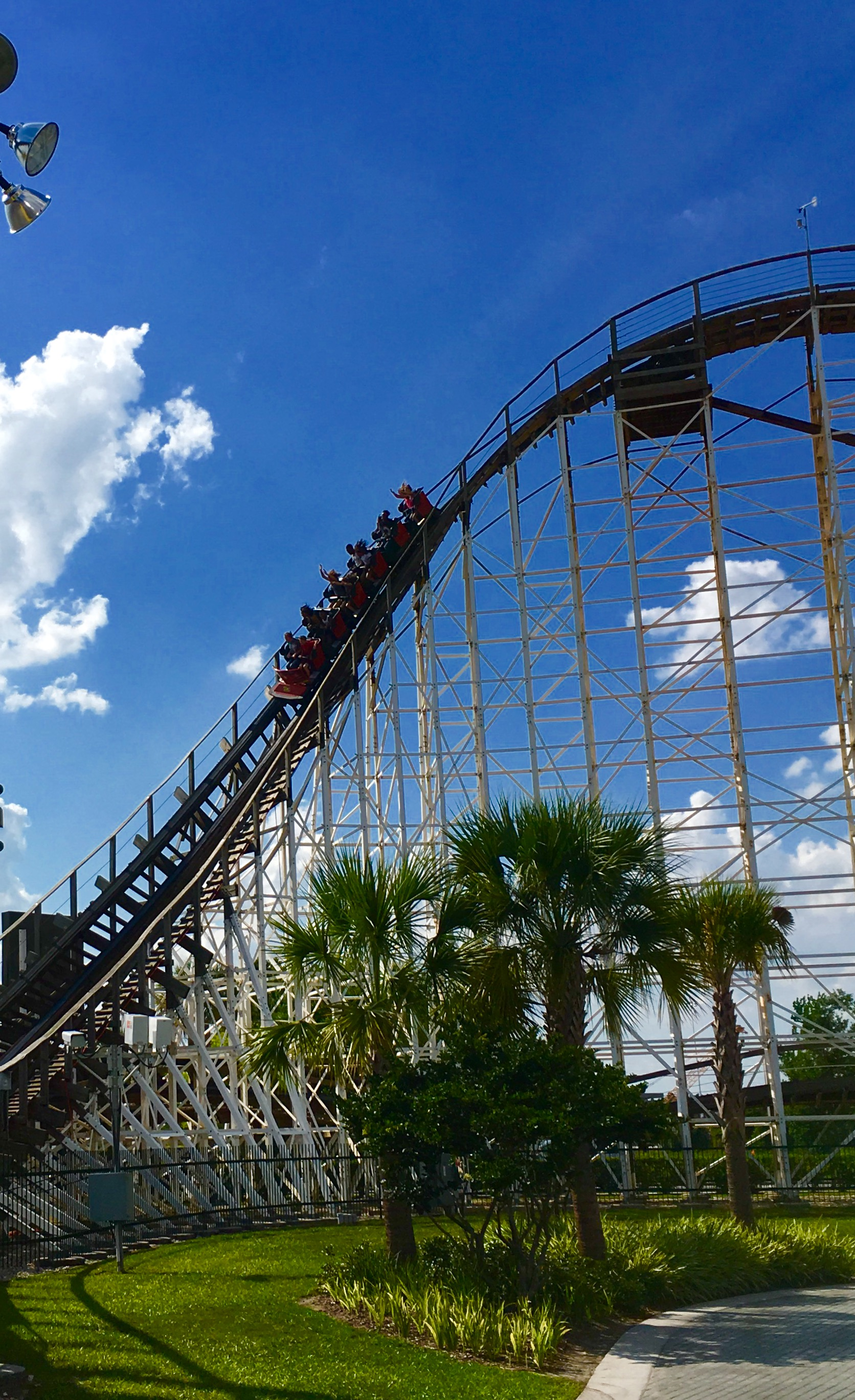 Fun Spot America Orlando's White Lightning's First Drop